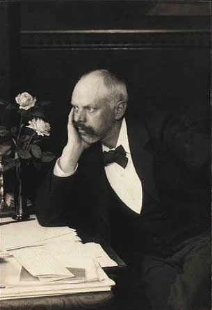 Danish author and journalist Carl Ewald (1856-1908)